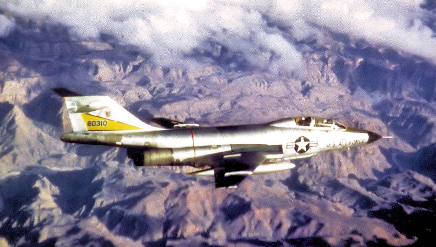 29th Fighter-Interceptor Squadron McDonnell F-101B-110-MC Voodoo Great Falls AFB, Montana March 1964. 0310 last seen on a scrap pile at Fairway Surplus, Tawas City, Michigan in 1972/73.